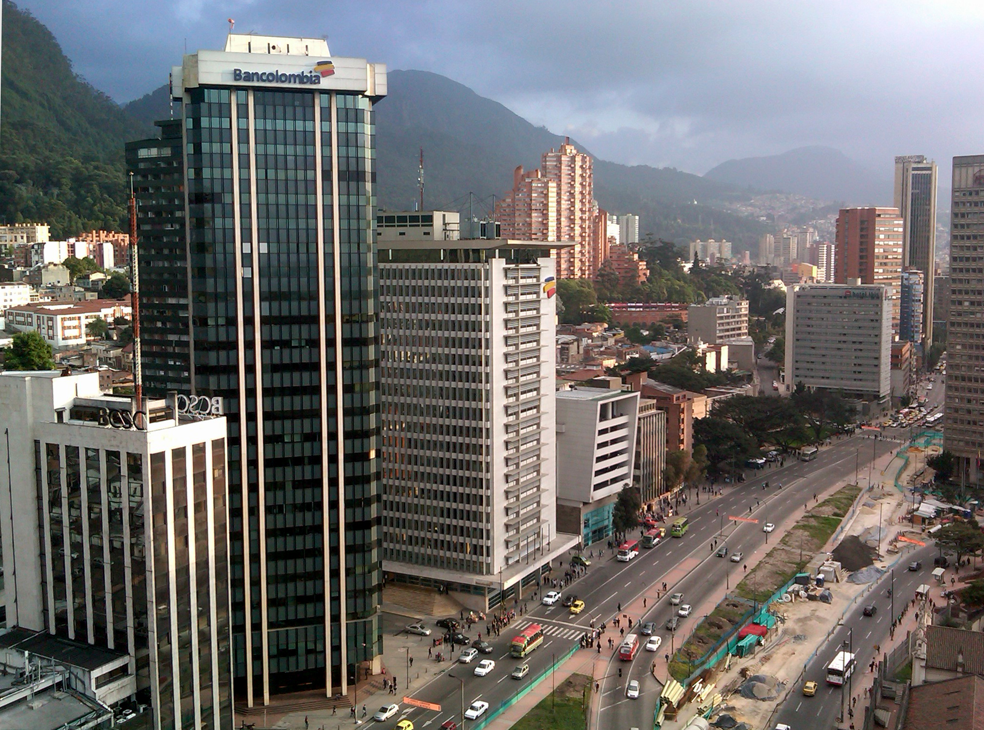 This photo of the Centro Internacional in Bogotá, Colombia includes views of the Edificio BCSC, Edificio Bancolombia, Residencias El Parque, Plaza de toros de Santamaría, Colombian National Museum, Hotel Ibis Museo, Edificio Seguros Tequendama. Also visible is Carrera Séptima, including construction work related to the construction of Transmilenio Phase 3, and Carrera Décima.